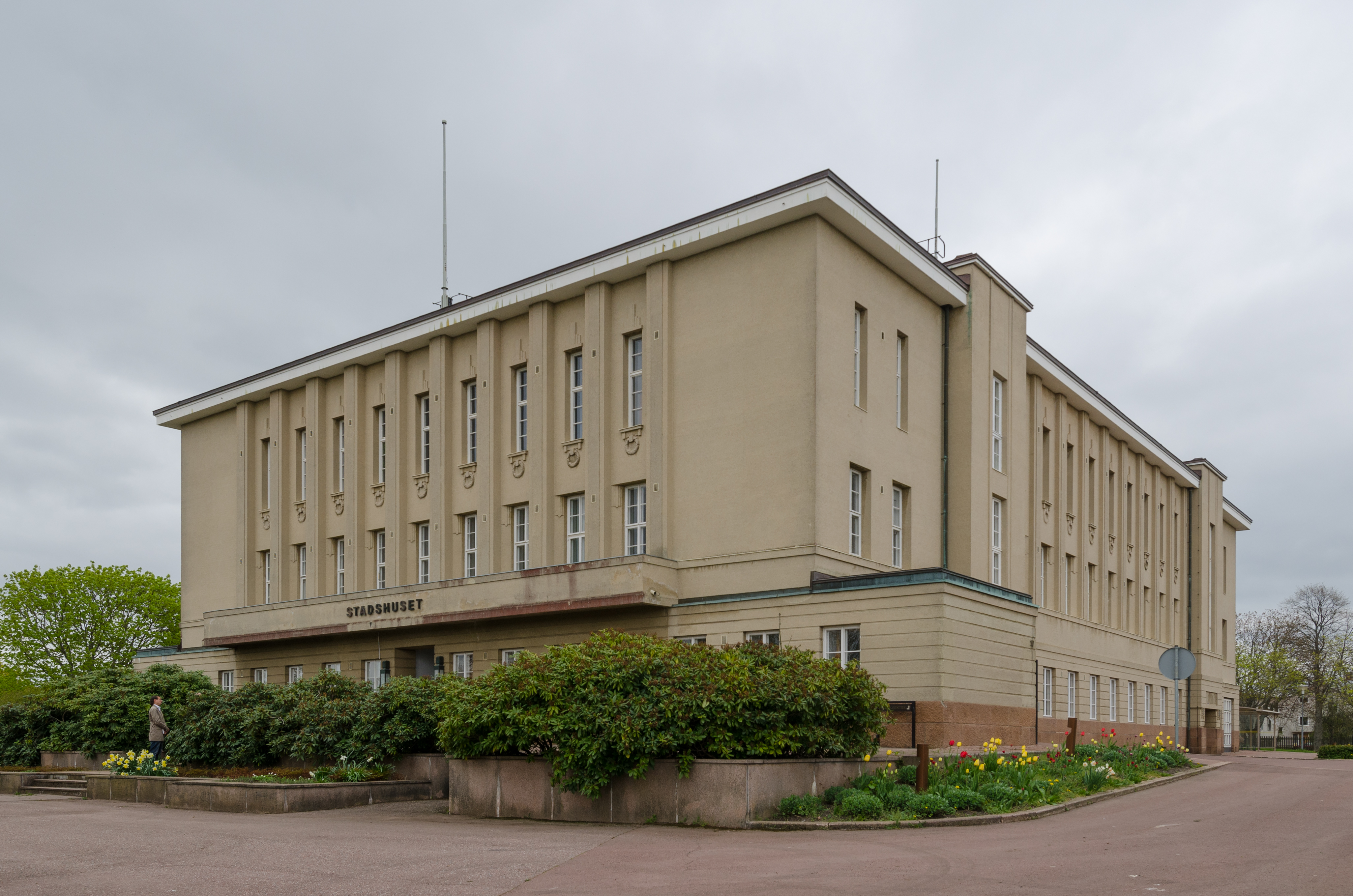 Mariehamns stadshus (city hall) in Mariehamn, Åland (Finland). Built 1939, architect Lars Sonck.